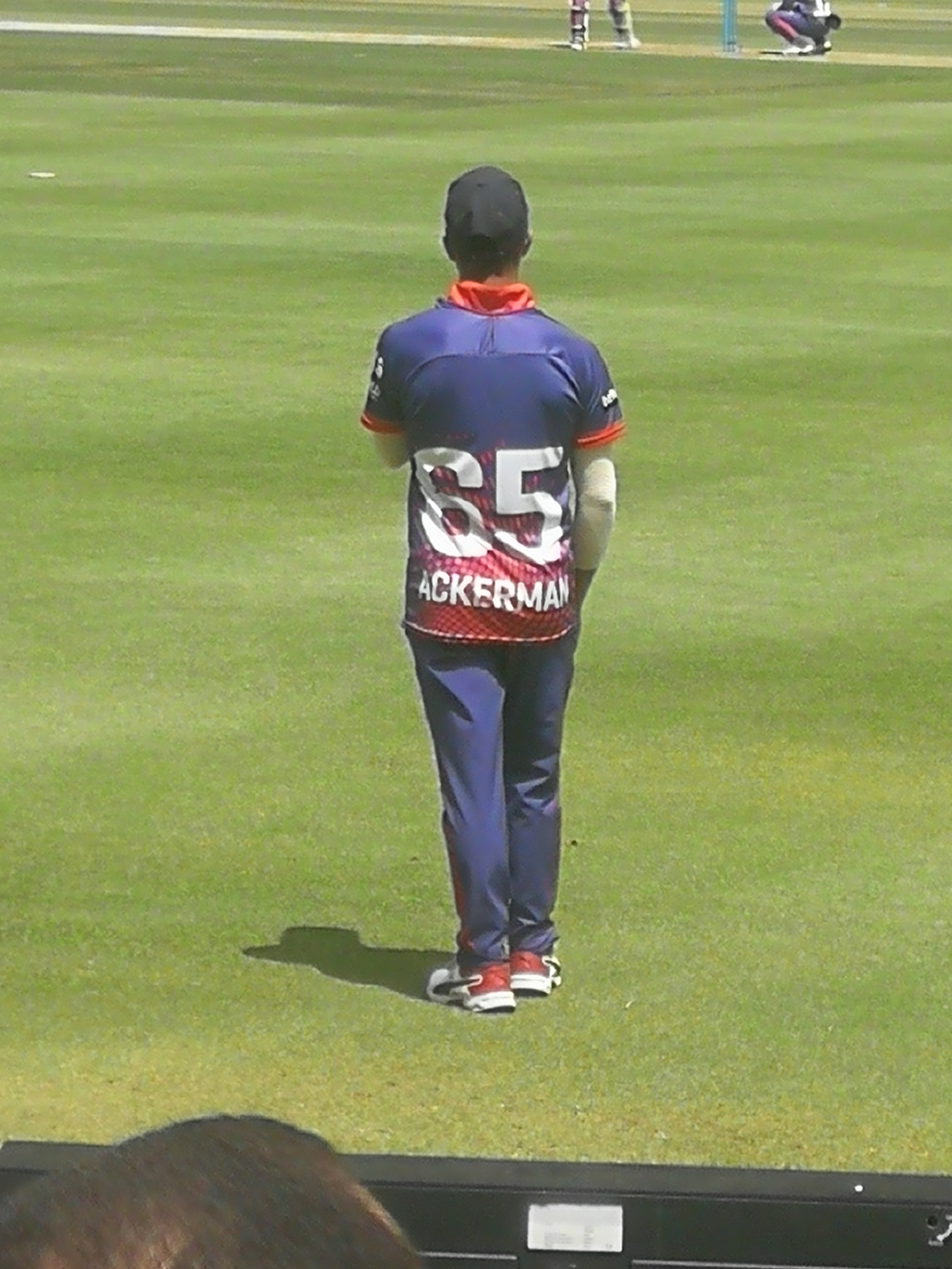 MJ Ackerman in the field for Cape Town Blitz during a 2019 Mzansi Super League match against Paarl Rocks